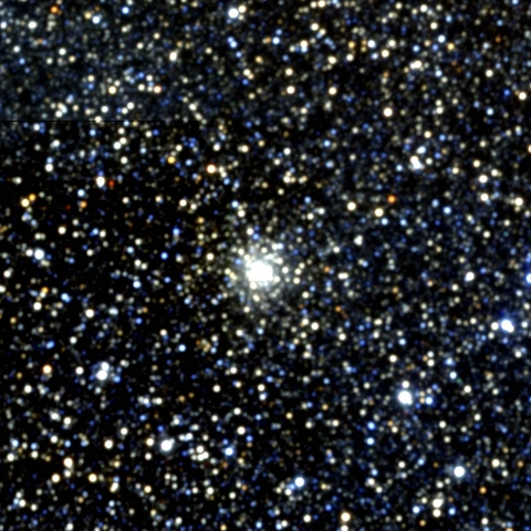 Atlas Image [or Atlas Image mosaic] obtained as part of the Two Micron All Sky Survey (2MASS), a joint project of the University of Massachusetts and the Infrared Processing and Analysis Center/California)